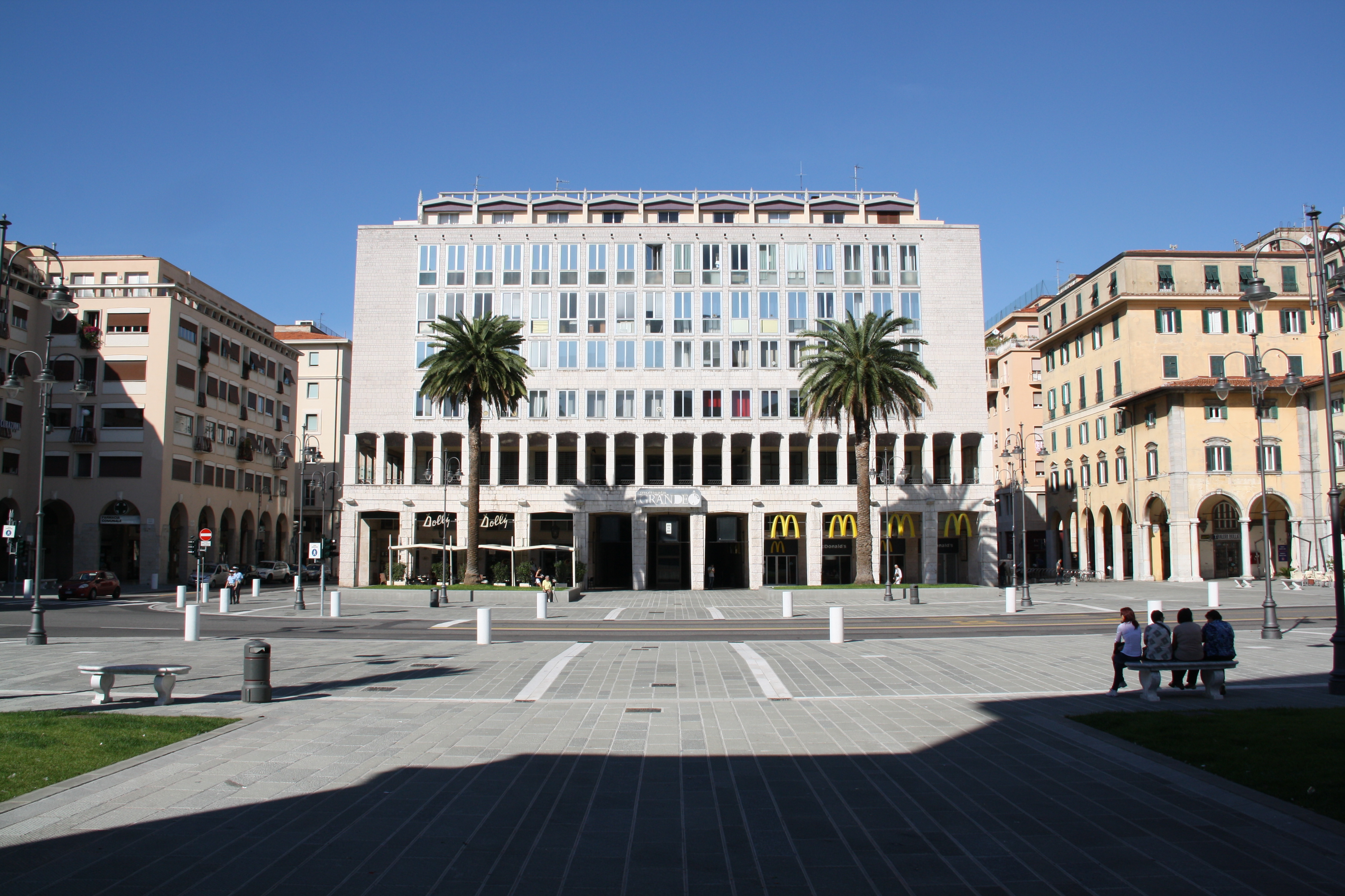 Italy, Livorno. Piazza Grande just restored.